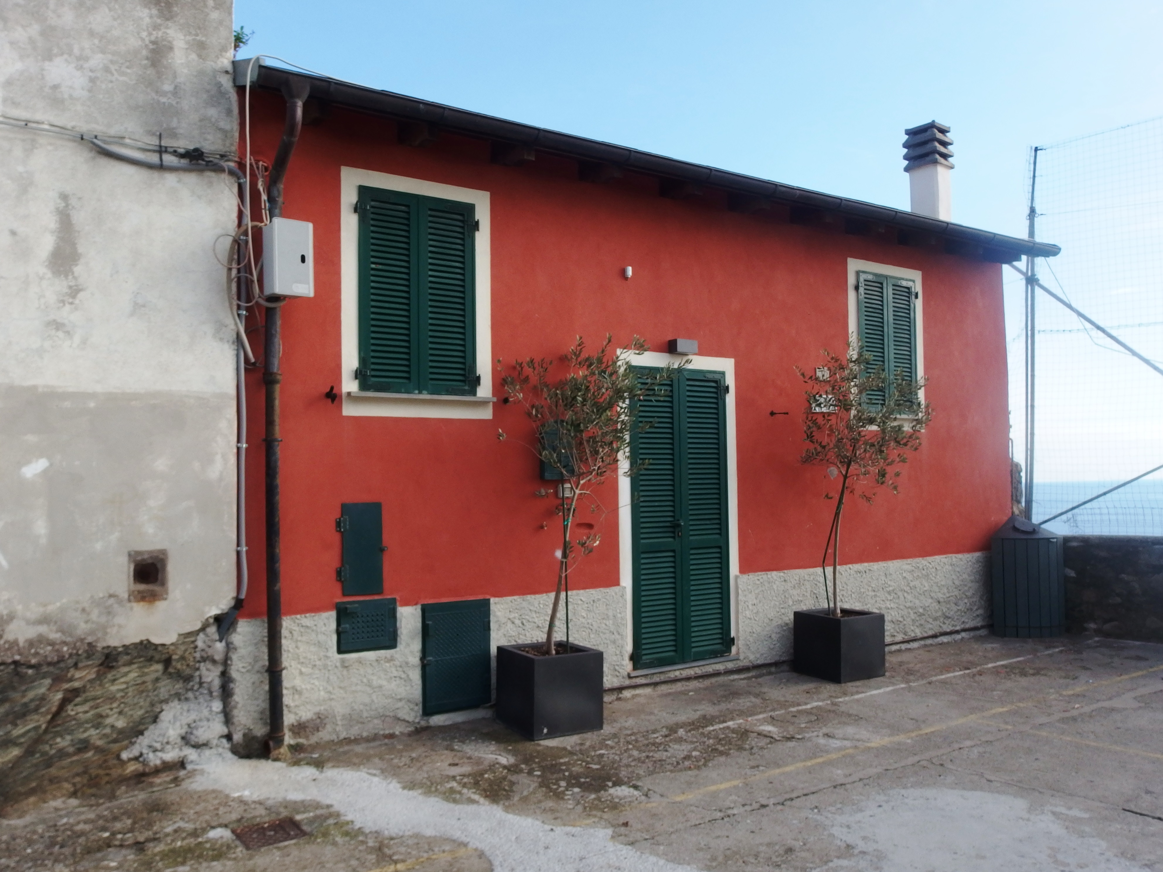 Corniglia, Liguria, Italy.